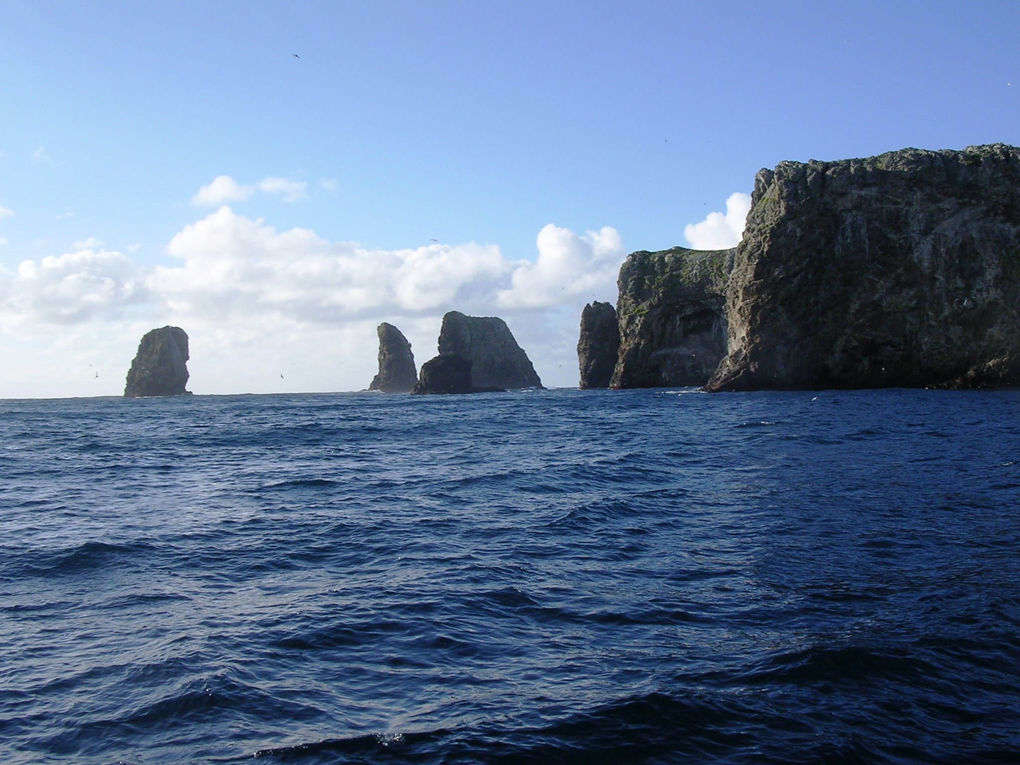 Forty-Fours or Motuhara Islands, off the Chatham Islands, New Zealand. Looking from the North so the most Easterly point in New Zealand is the rock on the left of the photo.